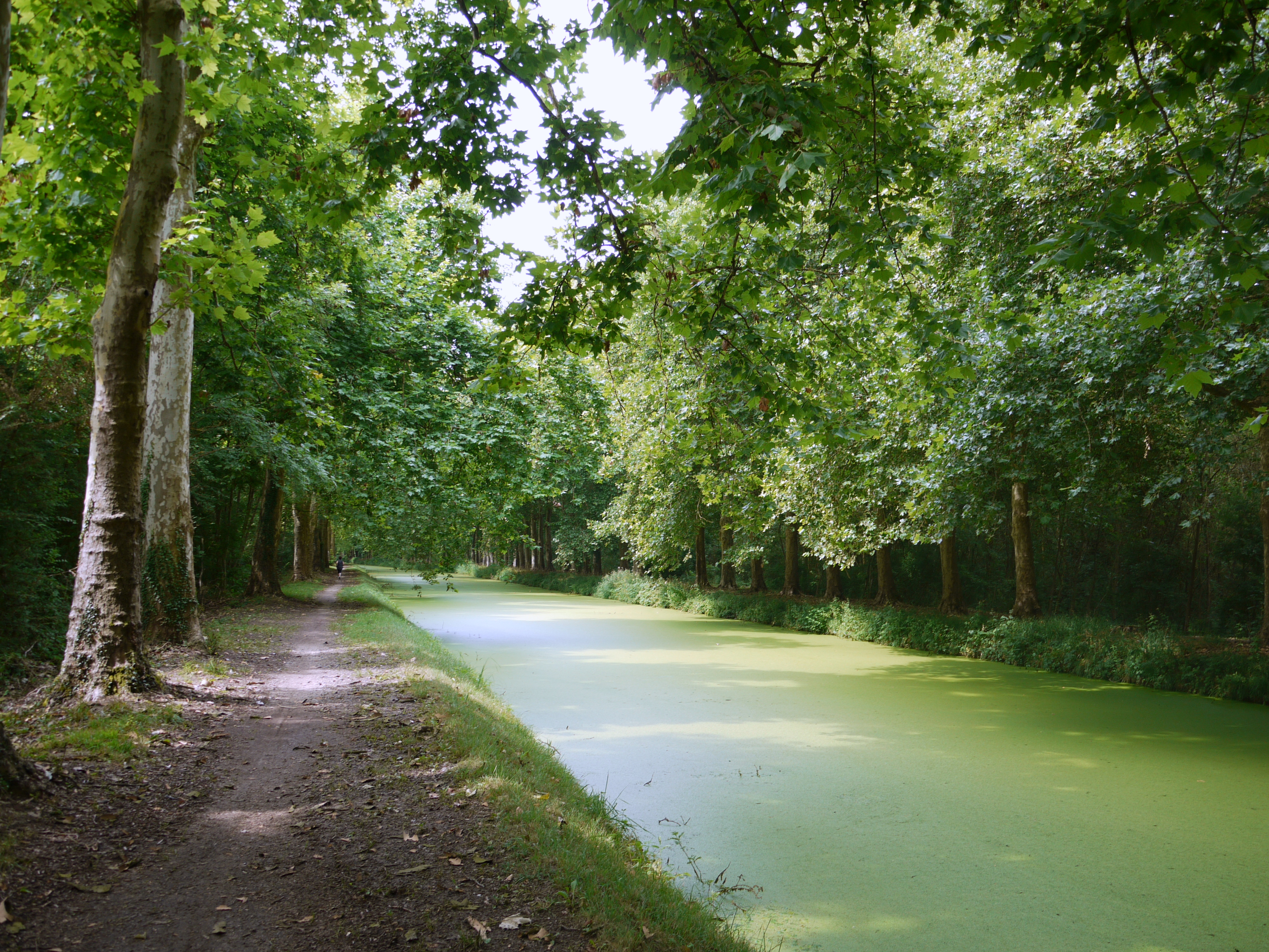 Canal d'Orléans near Chevillon sur Huillard, France